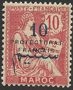 French Post Office In Morocco 10 centimes overprinted "PROTECTORAT FRANCAIS"